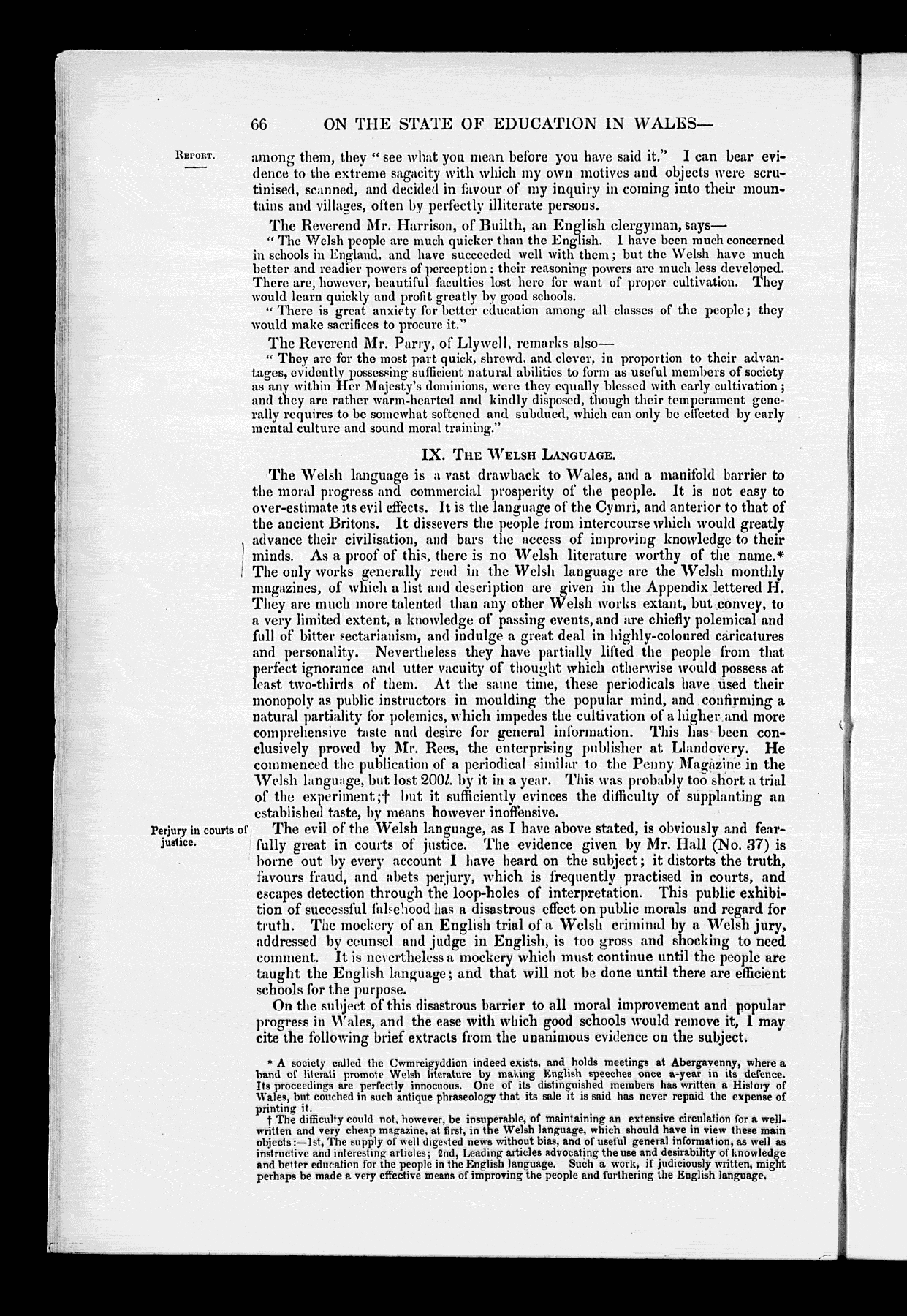 A British government commissioned report into the state of education in Wales. 1847. The report includes a study of the morals of the Welsh people. It resulted in deep controversy